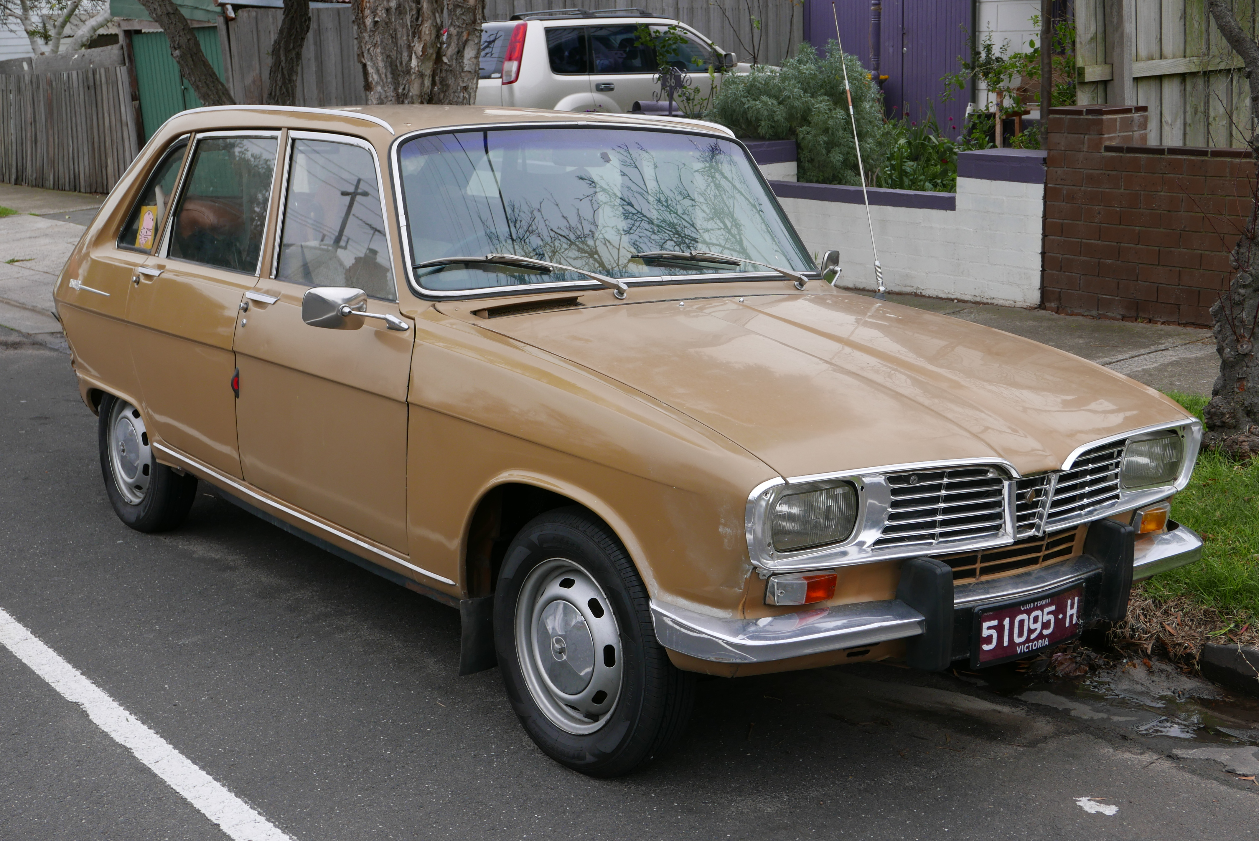 1971–1976 Renault 16 TL hatchback. Photographed in Coburg, Victoria, Australia.